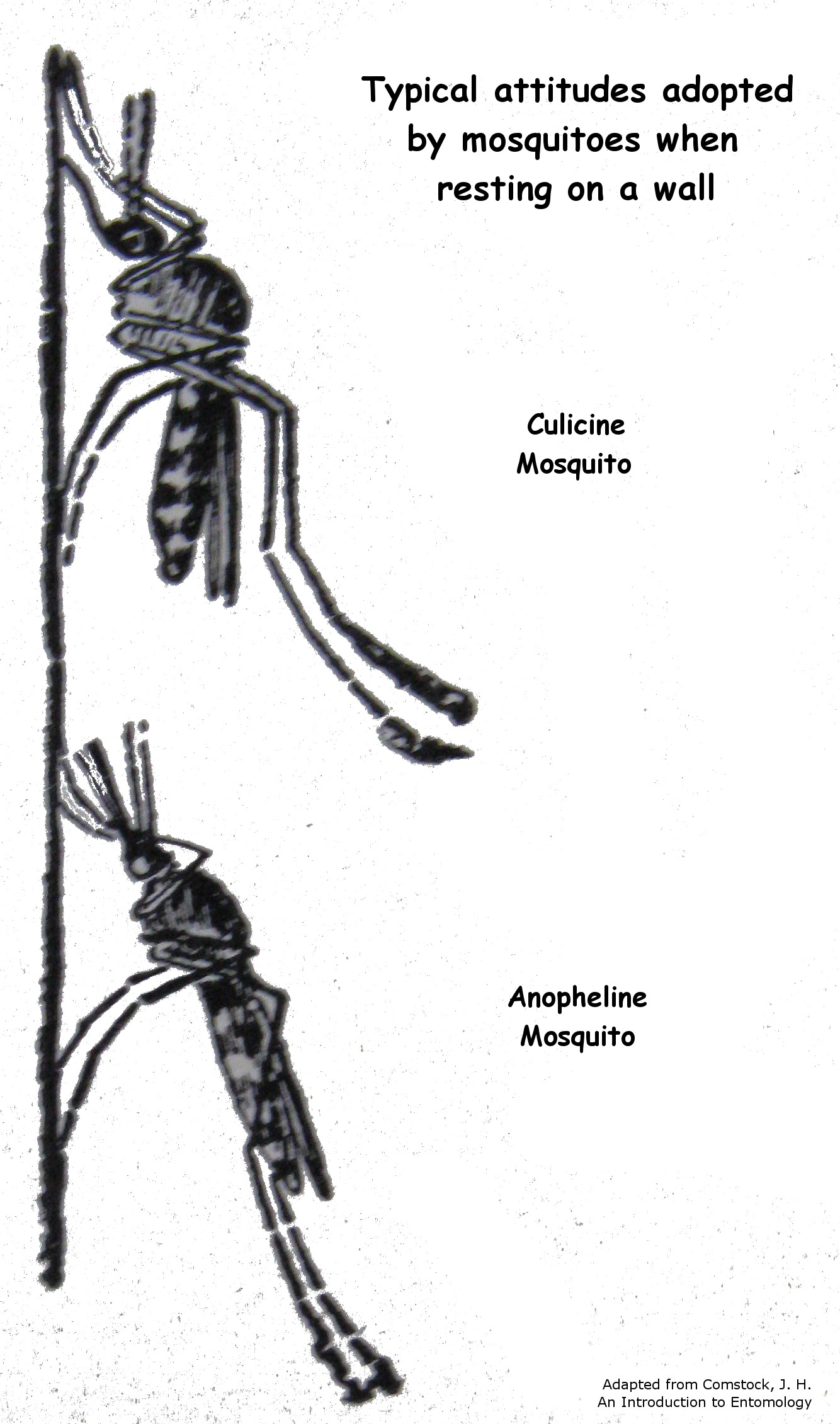 Adapted from Illustration in Introduction to Entomology by JH Comstock. Shows typical resting attitudes ofCulicine and Anophelene mosquitoes